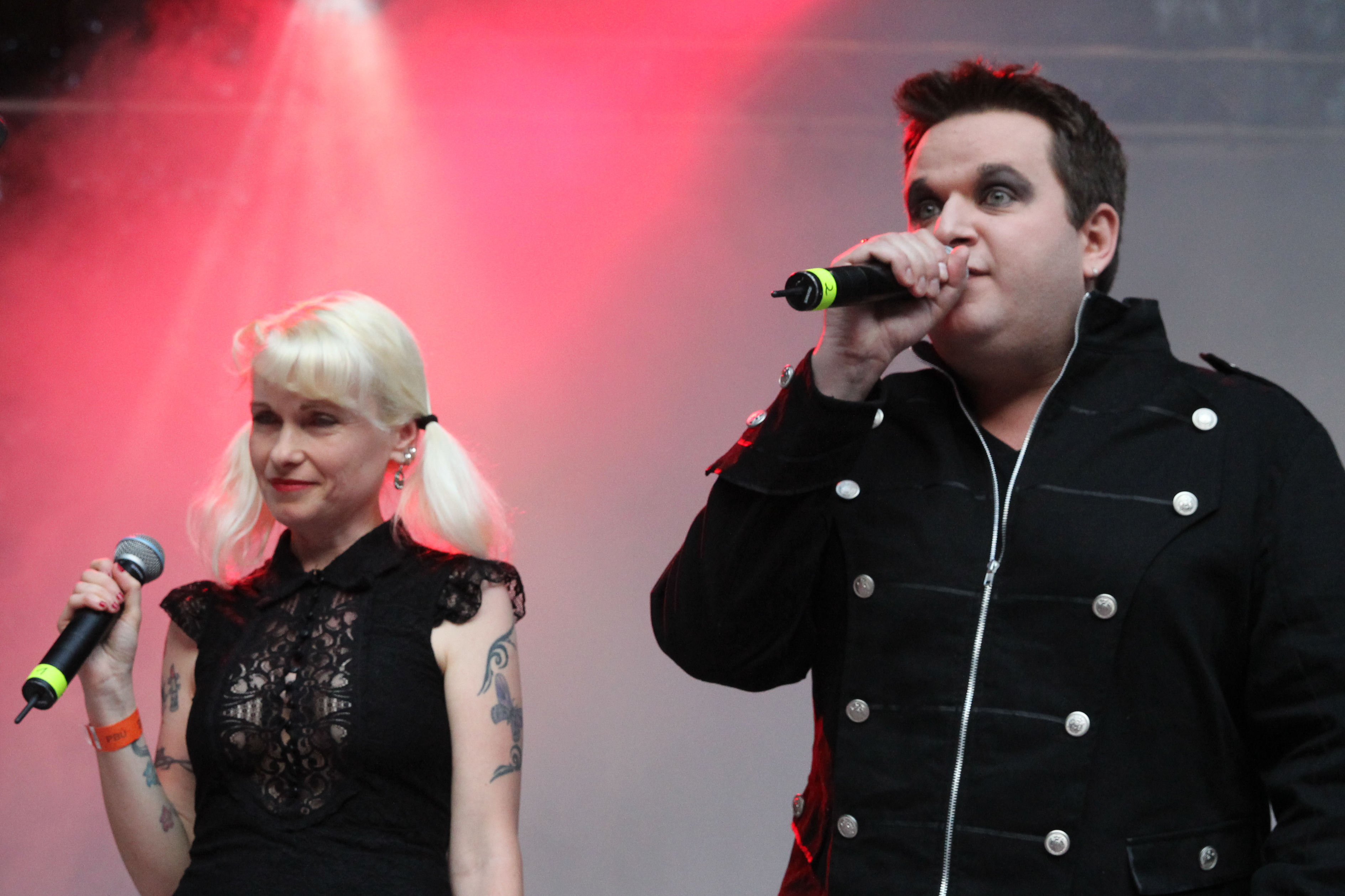 Illuminate at the Wave-Gotik-Treffen 2014.